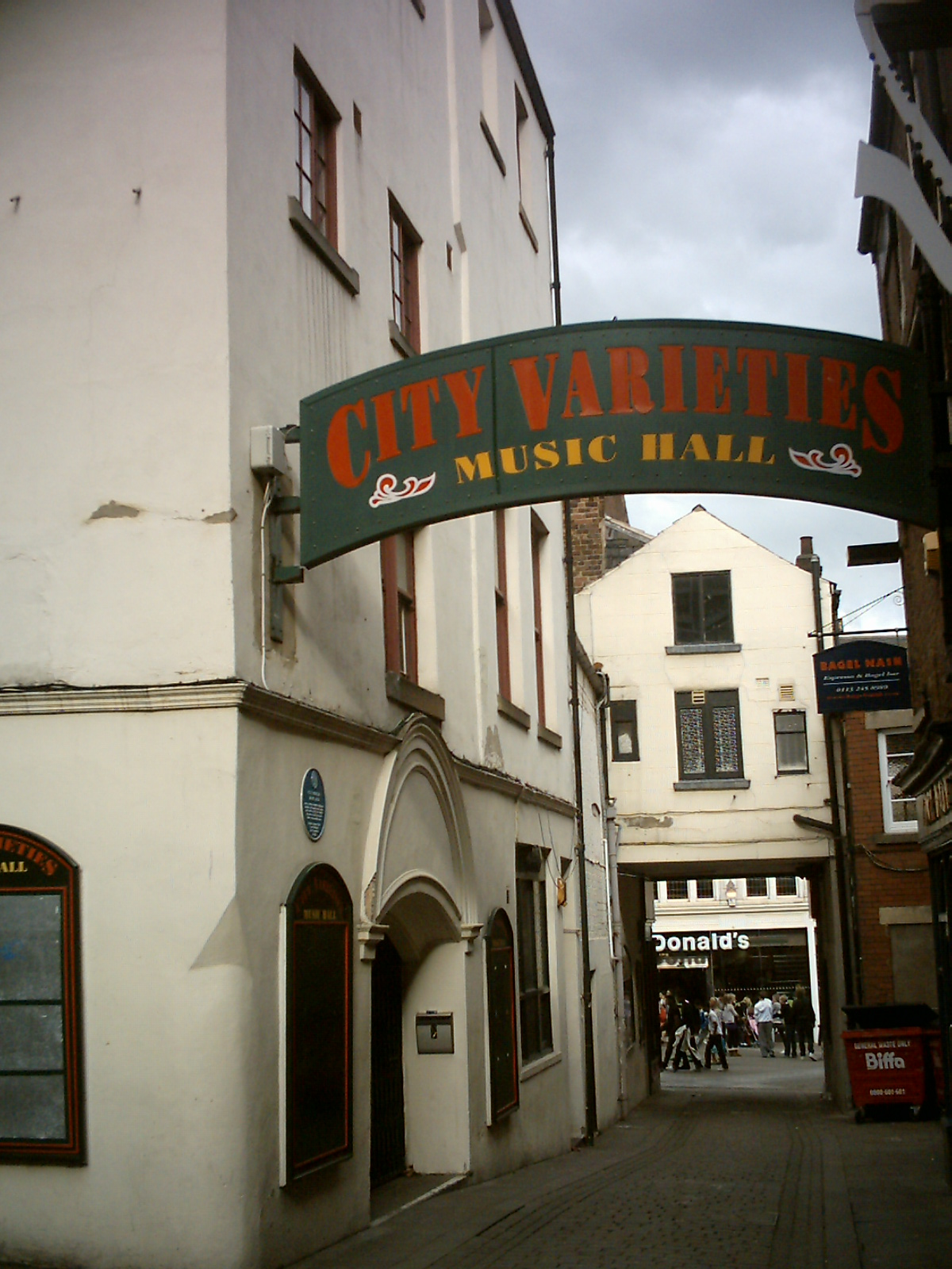 City Varieties off Briggate in Leeds, West Yorkshire, UK. Taken on the 2nd May 2009.